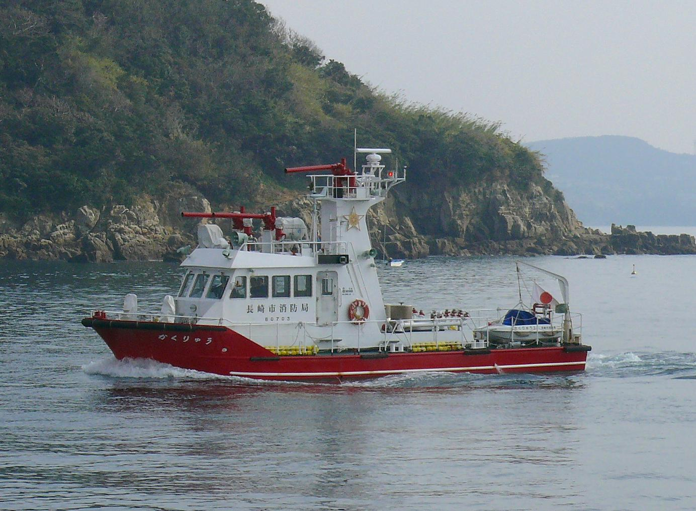 "Kakuryu" of the fireboat of Nagasaki City Fire department (Japan,Nagasaki prefecture,Nagasaki City). See also Ja:長崎市消防局 for more information(written in Japanese). 長崎市消防局 南消防署に所属する消防艇の「かくりゅう」。 長崎港付近にて遊覧船より撮影。